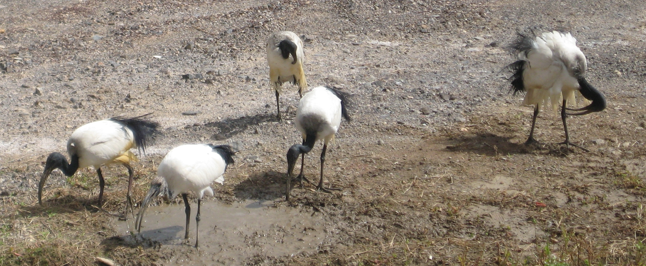 Ibises on a construction work field in Jandía, Pájara, Fuerteventura, Canary Islands.